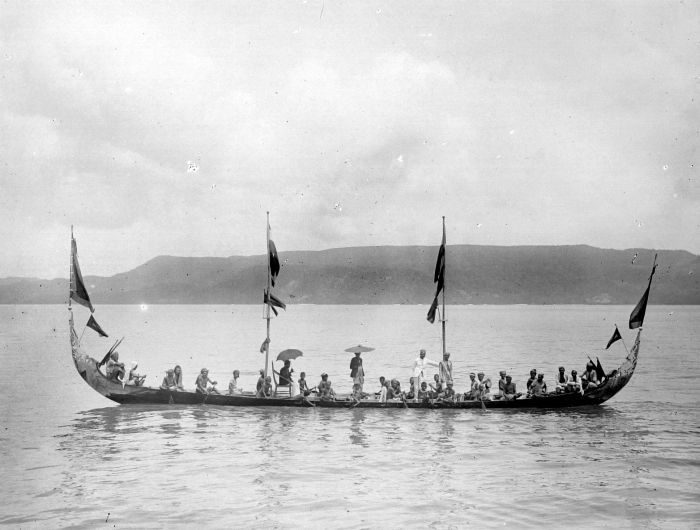 Ceremonial proa from the Kai islands, Moluccas